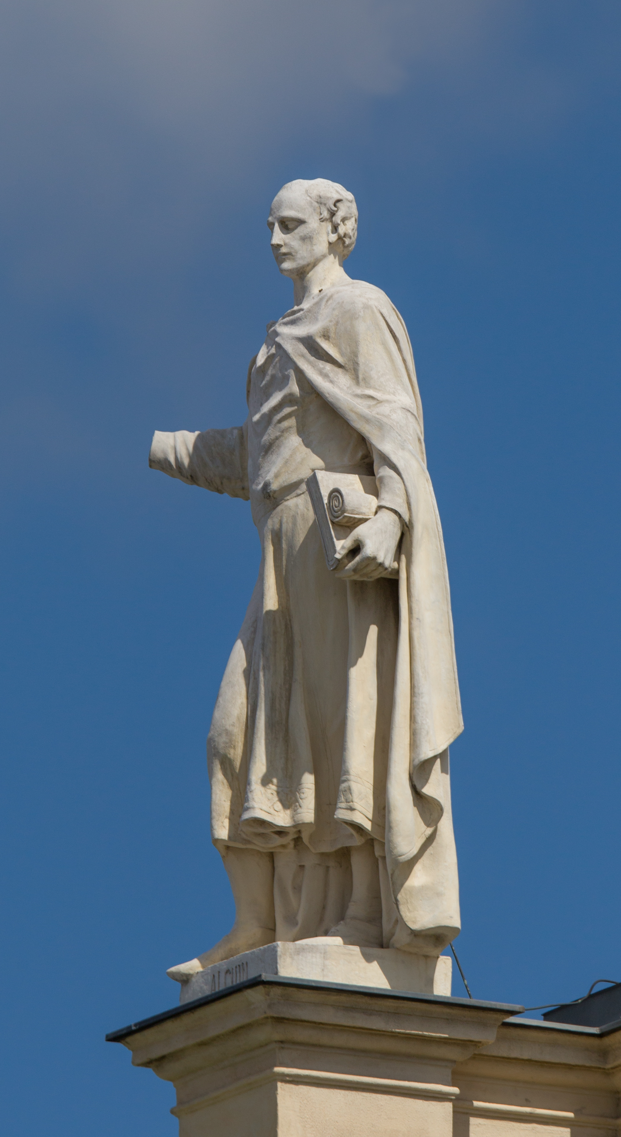 Kunsthistorisches Museum in Vienna Figures on the roof The making of this work was supported by Wikimedia Austria. For other files made with the support of Wikimedia Austria, please see the category Supported by Wikimedia Österreich.